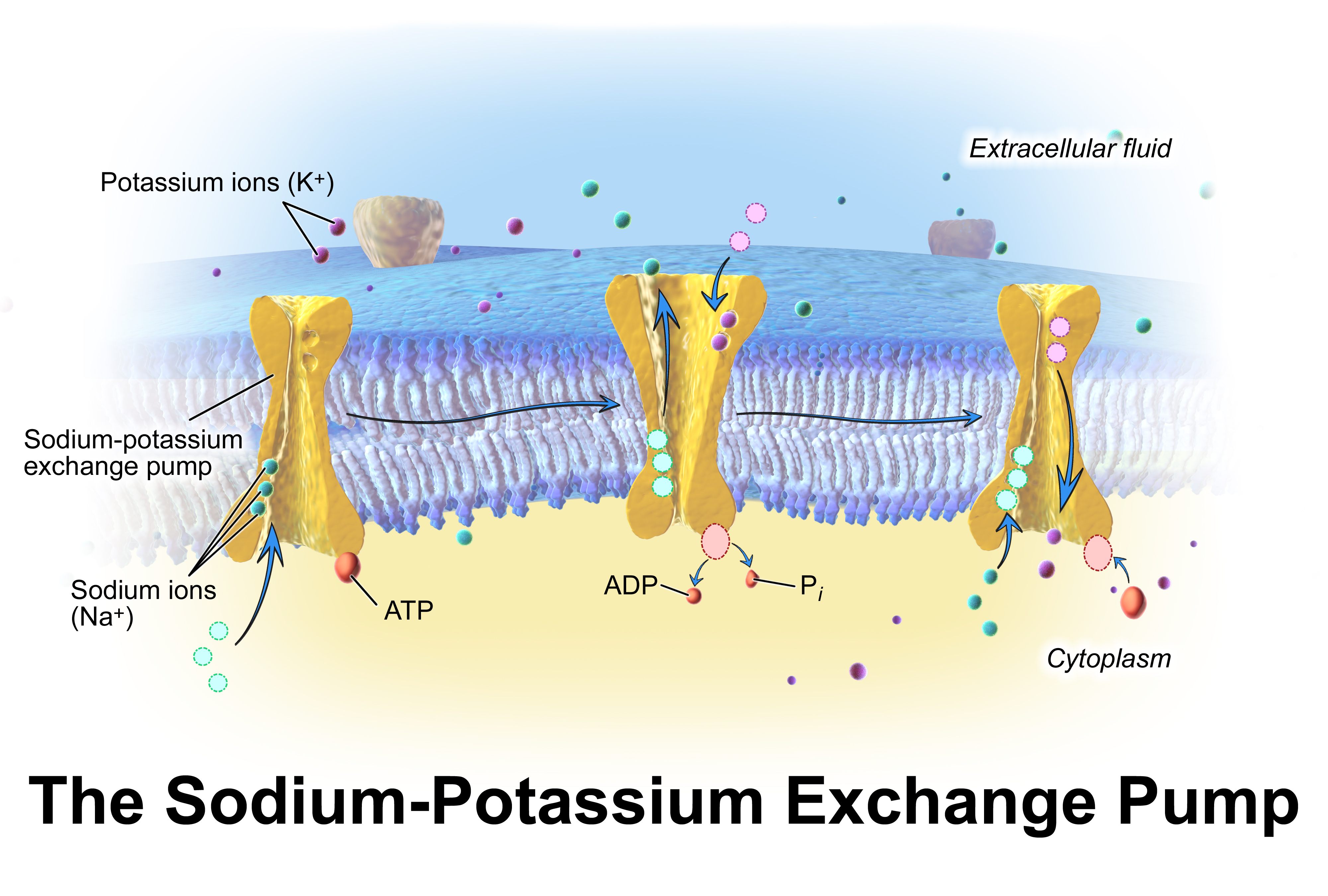 Blood Pressure. See a related animation of this medical topic.